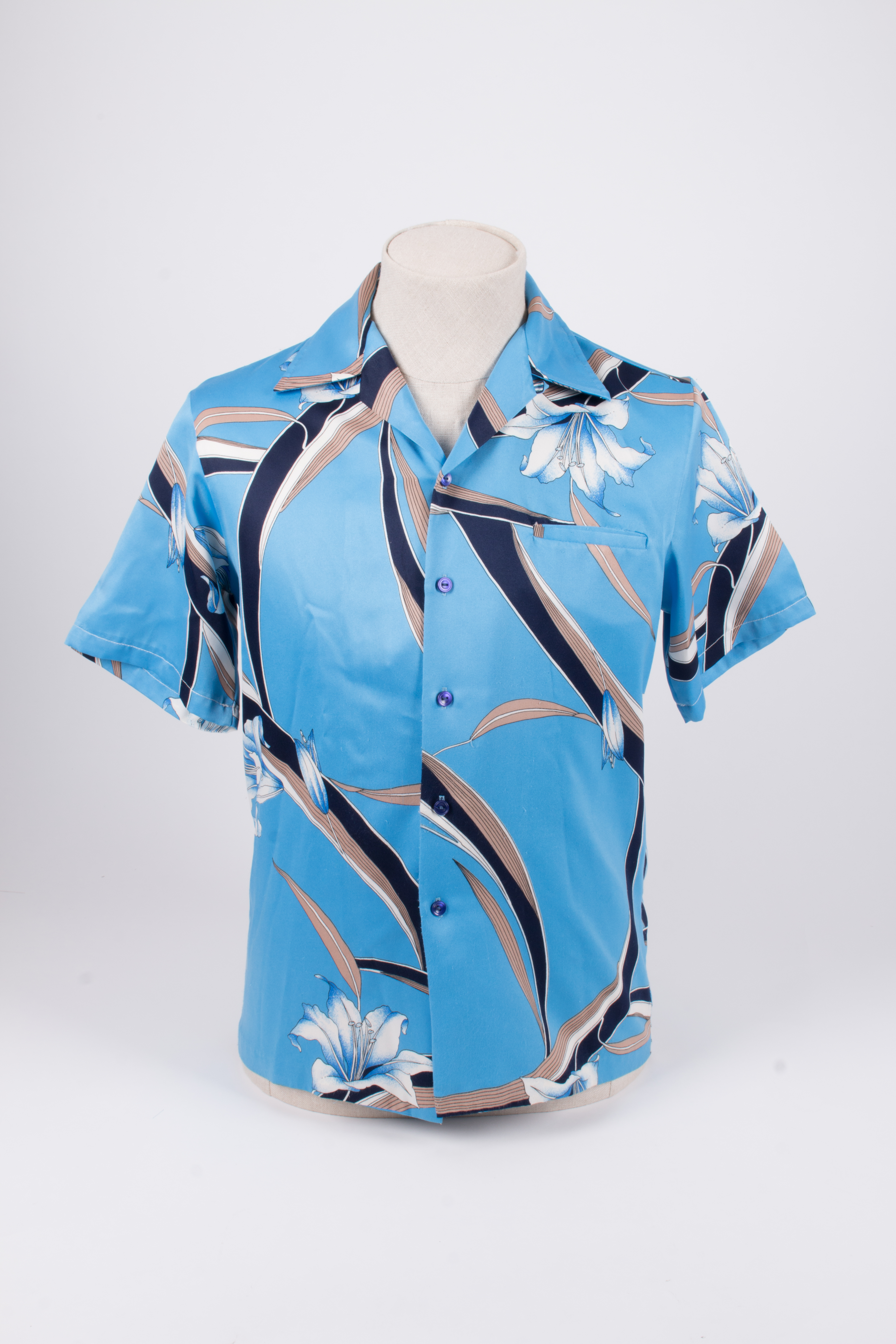 Shirt owned by Bill Sevesi. Aloha shirt with light blue background and pattern of blue and white hibiscus flowers with black and beige leaves, blue plastic buttons, pocket on left side